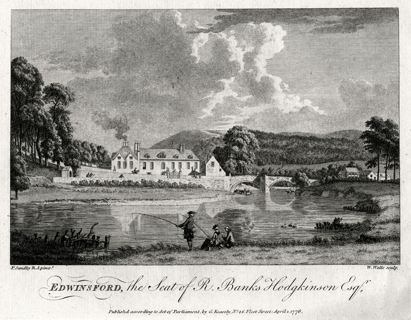 "Edwinsford, the seat of R. Banks Hodgkinson, Esq. Published according to Act of Parliament by G. Kearsly, no. 46 Fleet St, April 1, 1776. P. Sandby, RA, pinx(i)t, W.Watts, sculp."